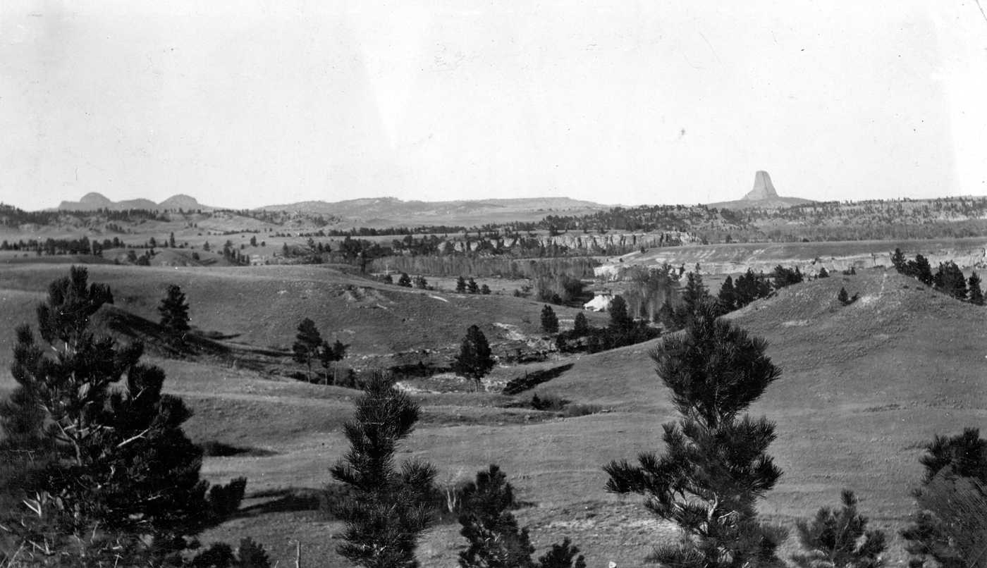 Devils Tower National Monument, Wyoming. Devils Tower and Missouri Buttes, viewed from the divide of Cabin Creek, 12 miles south.